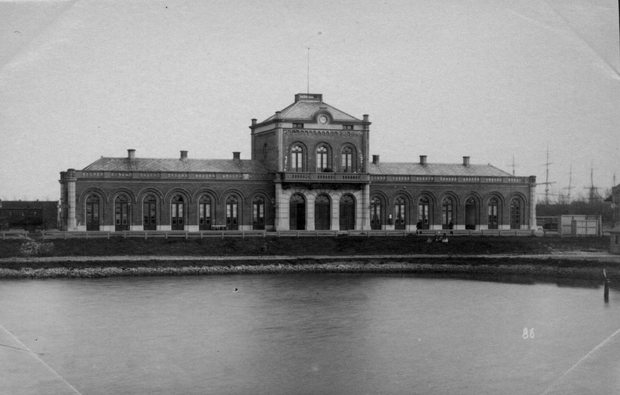 View of the Vlissingen Stad railway station